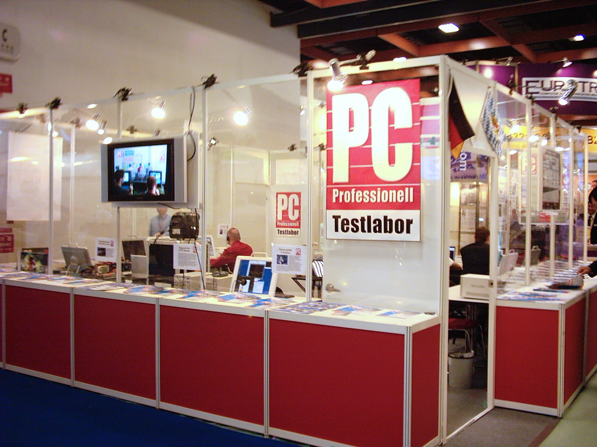 Computex Taipei 2006: Live Test Center by PC Pro Magazine (PC Professionell).